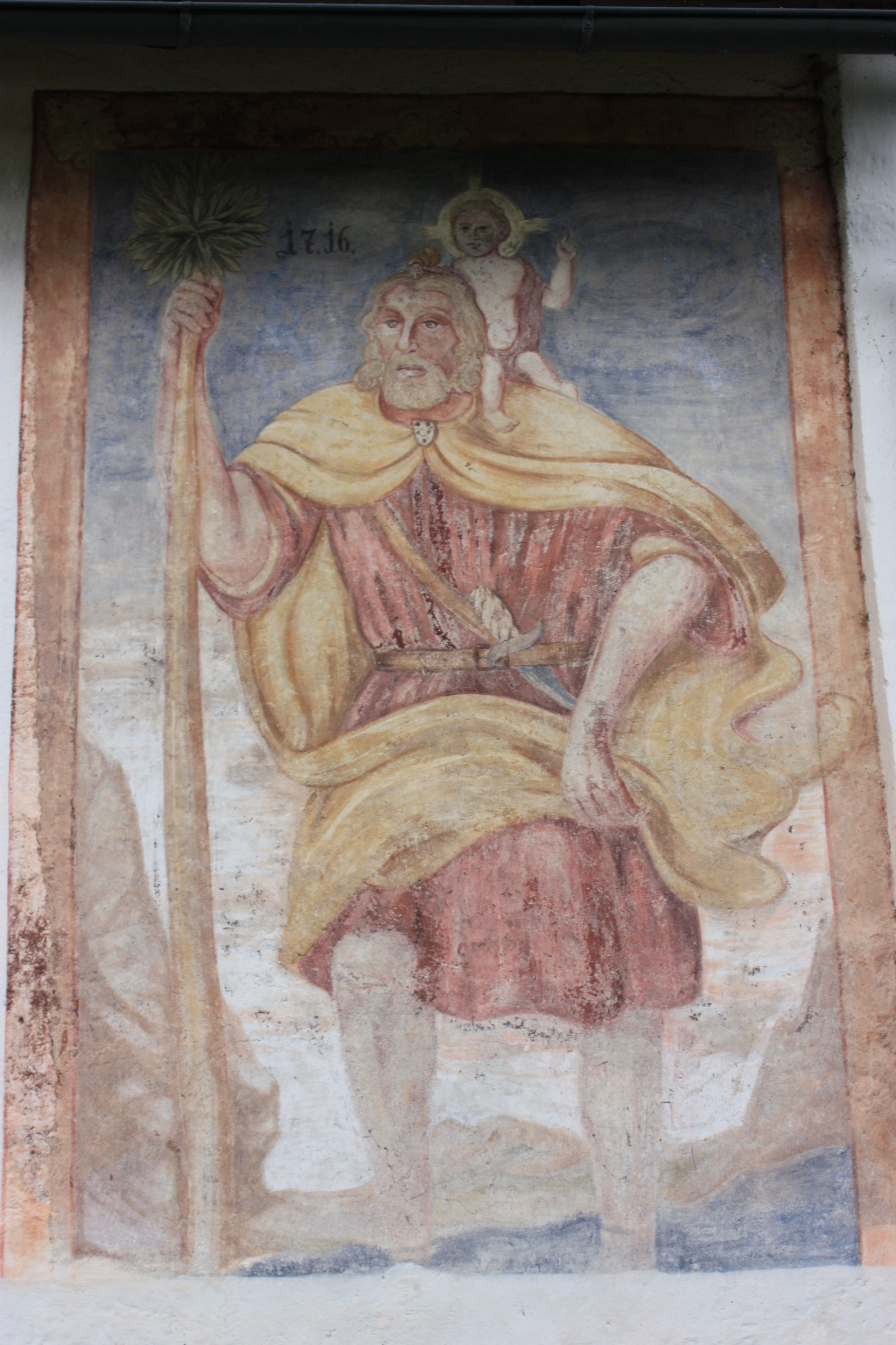 Subsidiary church Saint Valentin - Saint Christopher Locality: Paßriach Community: Hermagor